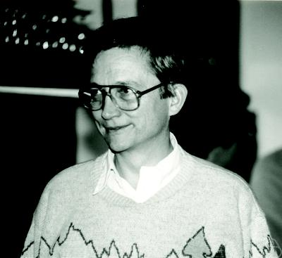 Henry Crapo at Oberwolfach in 1987 (source licenses per CC Attribution Share-Alike 2.0 Germany)